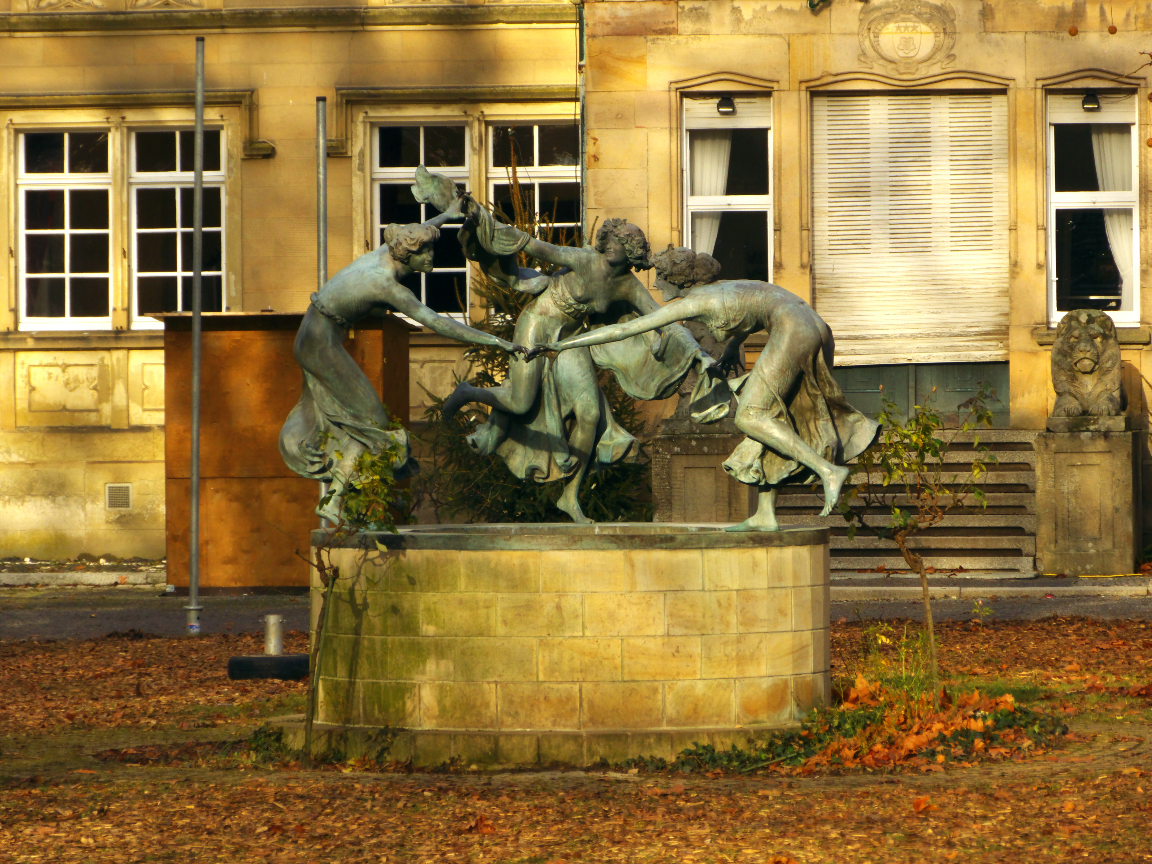 Round Dance